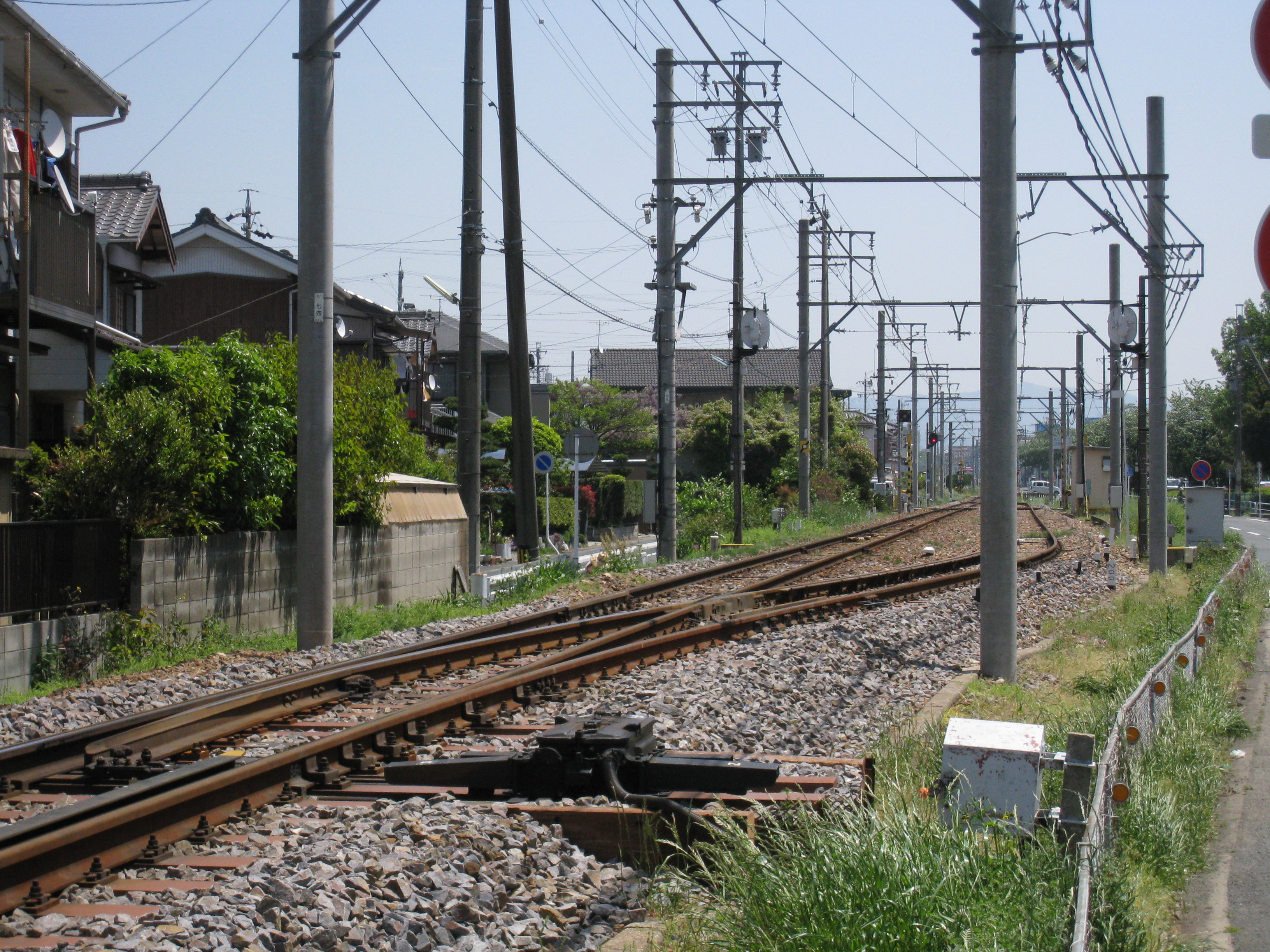 Suwa-Shinmichi Junction on the Meitetsu Toyokawa Mainline in Suwa, Toyokawa, Aichi, Japan